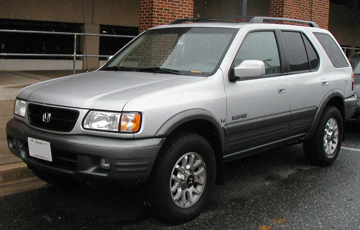 2000-2002 Honda Passport photographed in College Park, Maryland, USA.